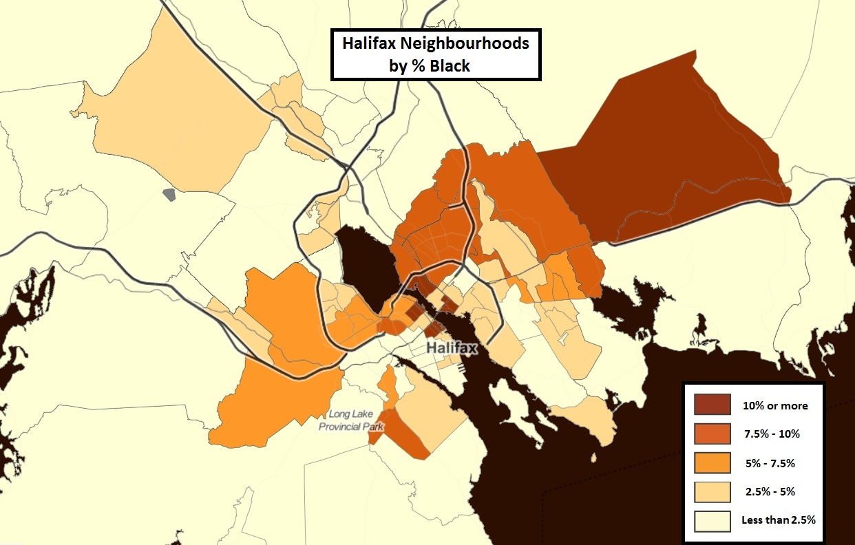 Census tracts in Halifax by % of people who identify as Black Canadian.